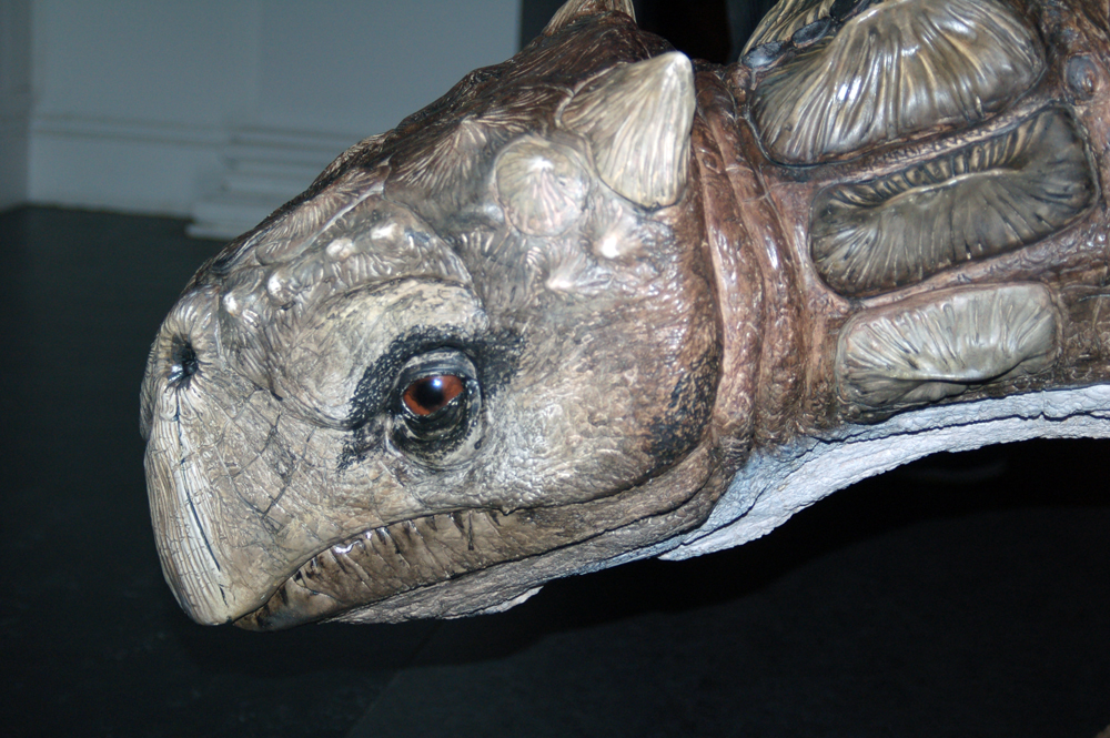 Photo: model of Kunbarrasaurus (formerly Minmi paravertebra) at the Australian Museum, Sydney.